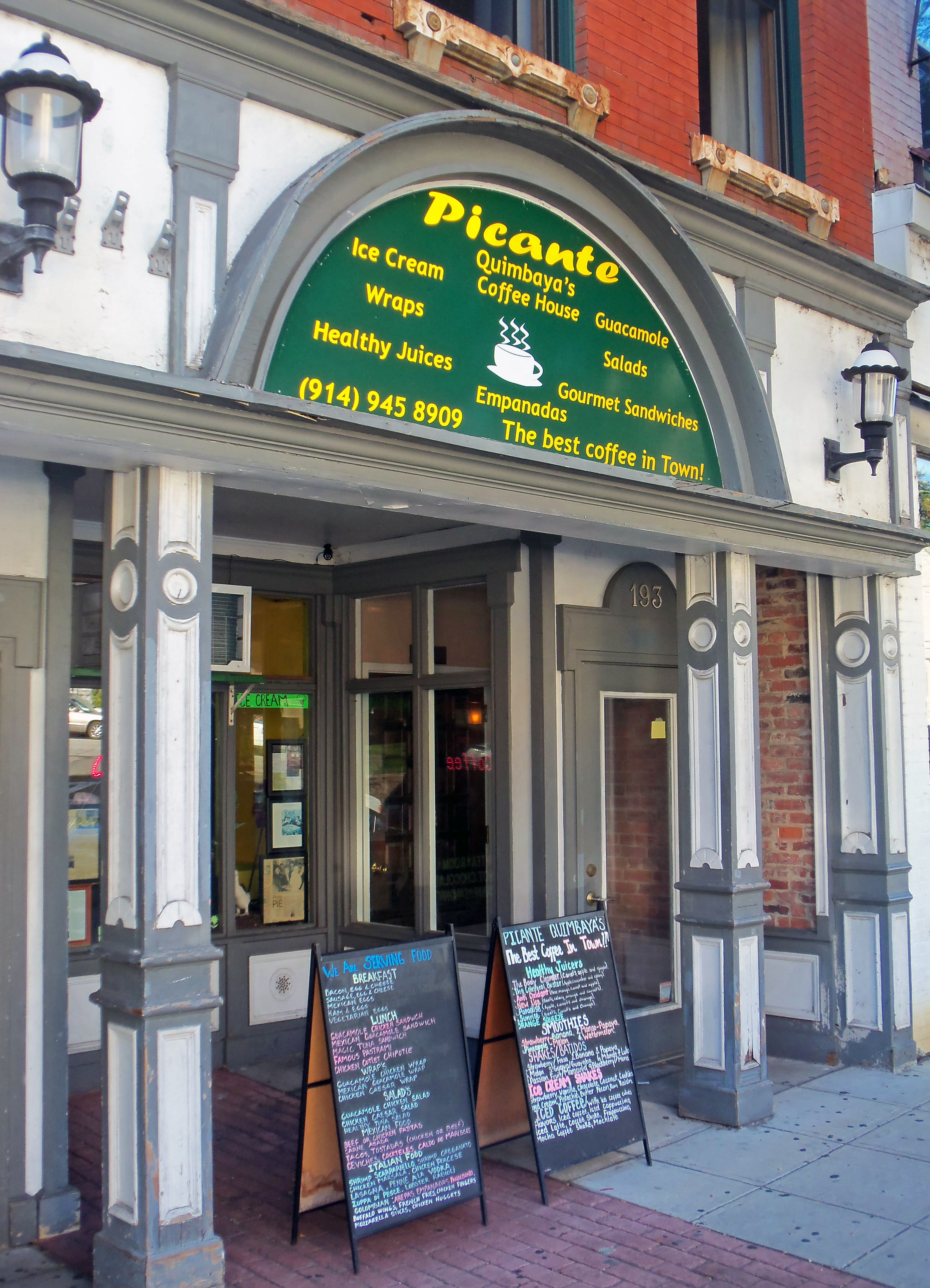 Storefront of Latin coffeehouse in downtown Ossining, NY, USA, reflecting an increasing segment of the local population and its impact on the village.